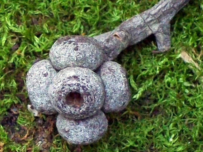 gumnuts of Eucalyptus agglomerata, Watagan Forest Road, Watagans National Park, Australia